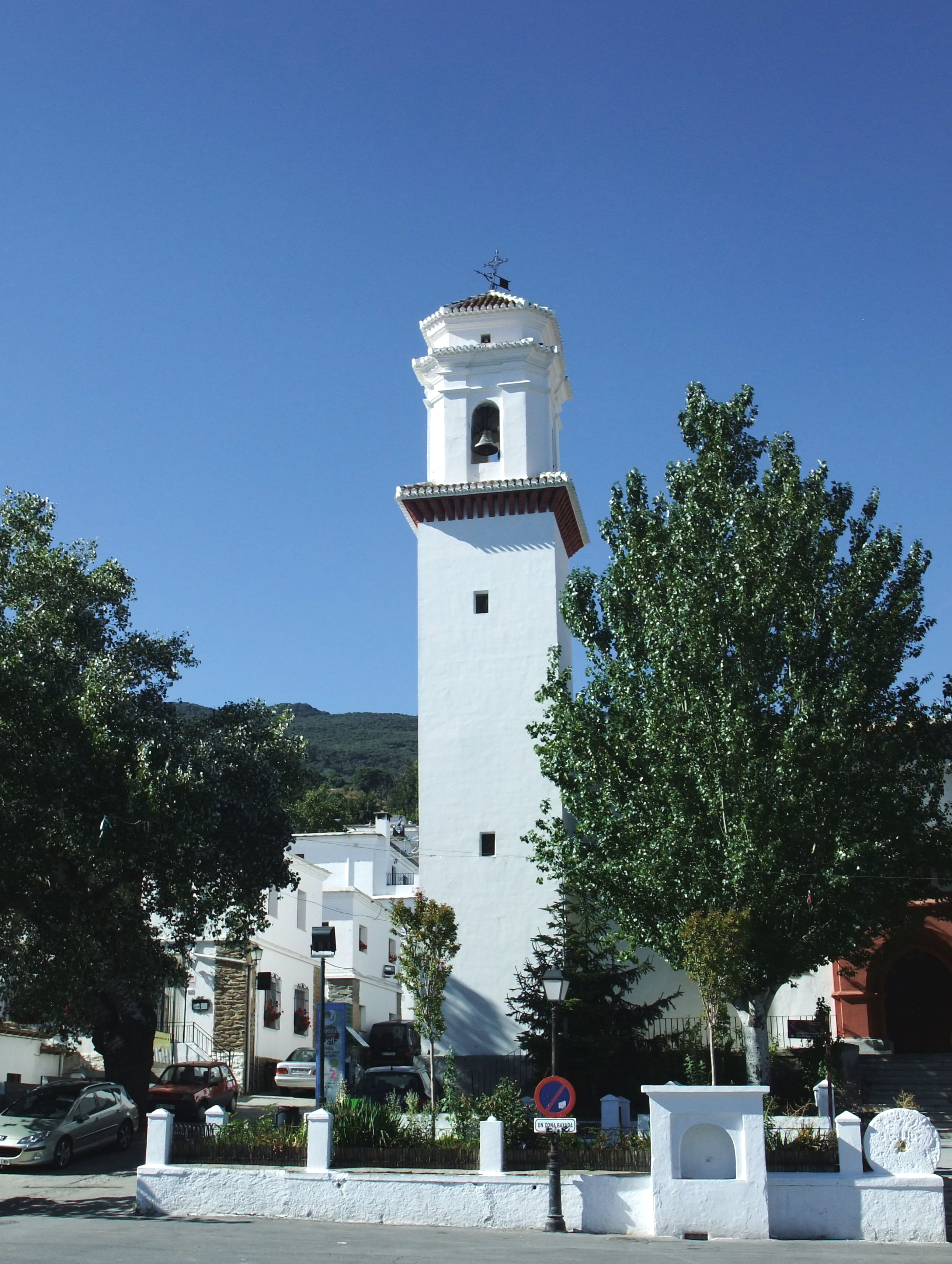 Church in Pitres, Granada in Spain